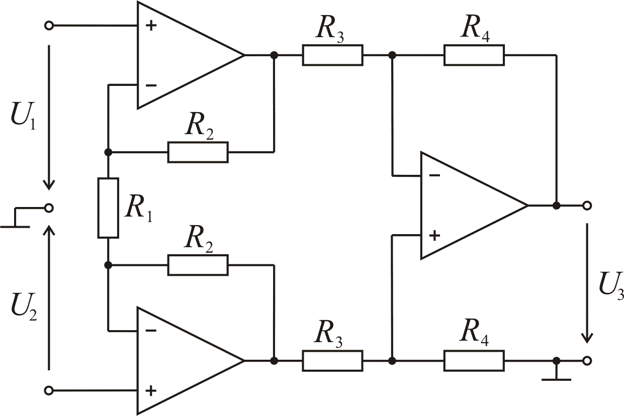 Schema of instrumentation amplifier.